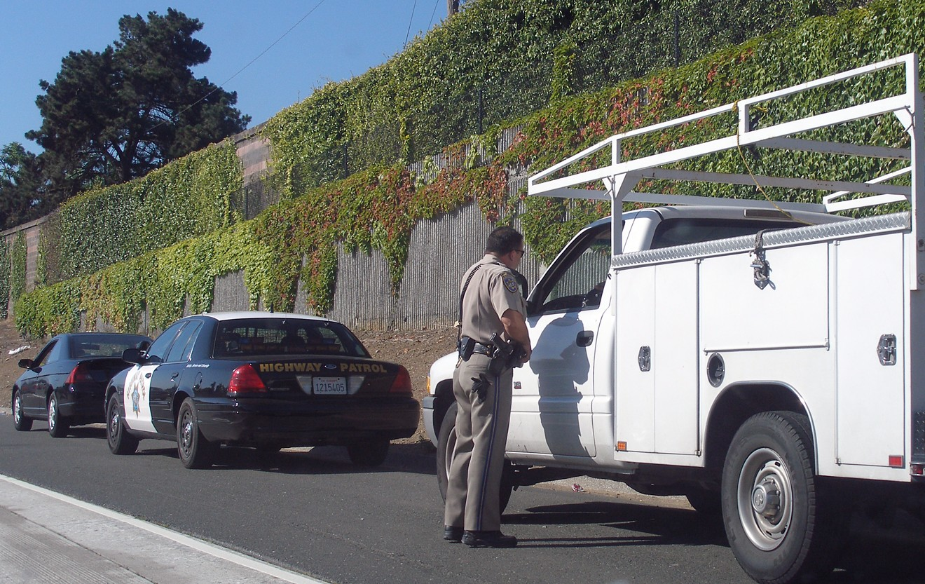 An officer of the California Highway Patrol making a traffic stop on southbound State Route 85 in Cupertino. The apparent reason for this stop was illegal use of the high-occupancy vehicle lane with no passengers. Both civilian vehicles visible in this image were among several who were apparently using the HOV lane to bypass a traffic jam that resulted when Caltrans failed to finish repaving an off-ramp before the morning rush hour. Photographed on June 21, 2006.